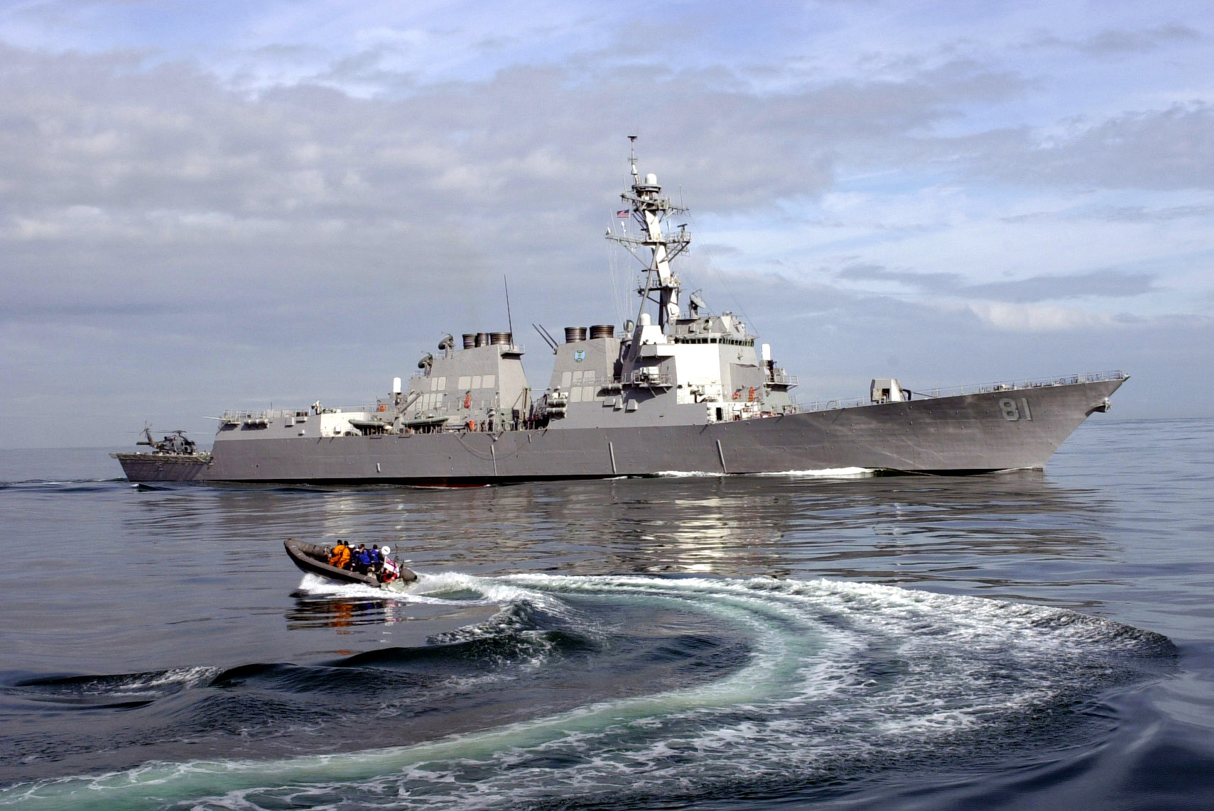 010822-N-6967M-503 English Channel (August 22, 2001) -- Sailors stationed aboard USS Winston S. Churchill (DDG 81) return to their ship after a visit with the British Royal Navy ship, HMS Monmouth. Churchill, homeported in Norfolk, Va., is making its first deployment to the United Kingdom, Republic of Ireland and Norway and is the only U.S. Navy vessel in active service named for a foreign dignitary. The ship is named in honor of Sir Winston Spencer Leonard Churchill (1874-1965), best known for his courageous leadership as British Prime Minister during World War II. U.S. Navy Photo by Photographer's Mate 2nd Class Shane McCoy. (RELEASED)